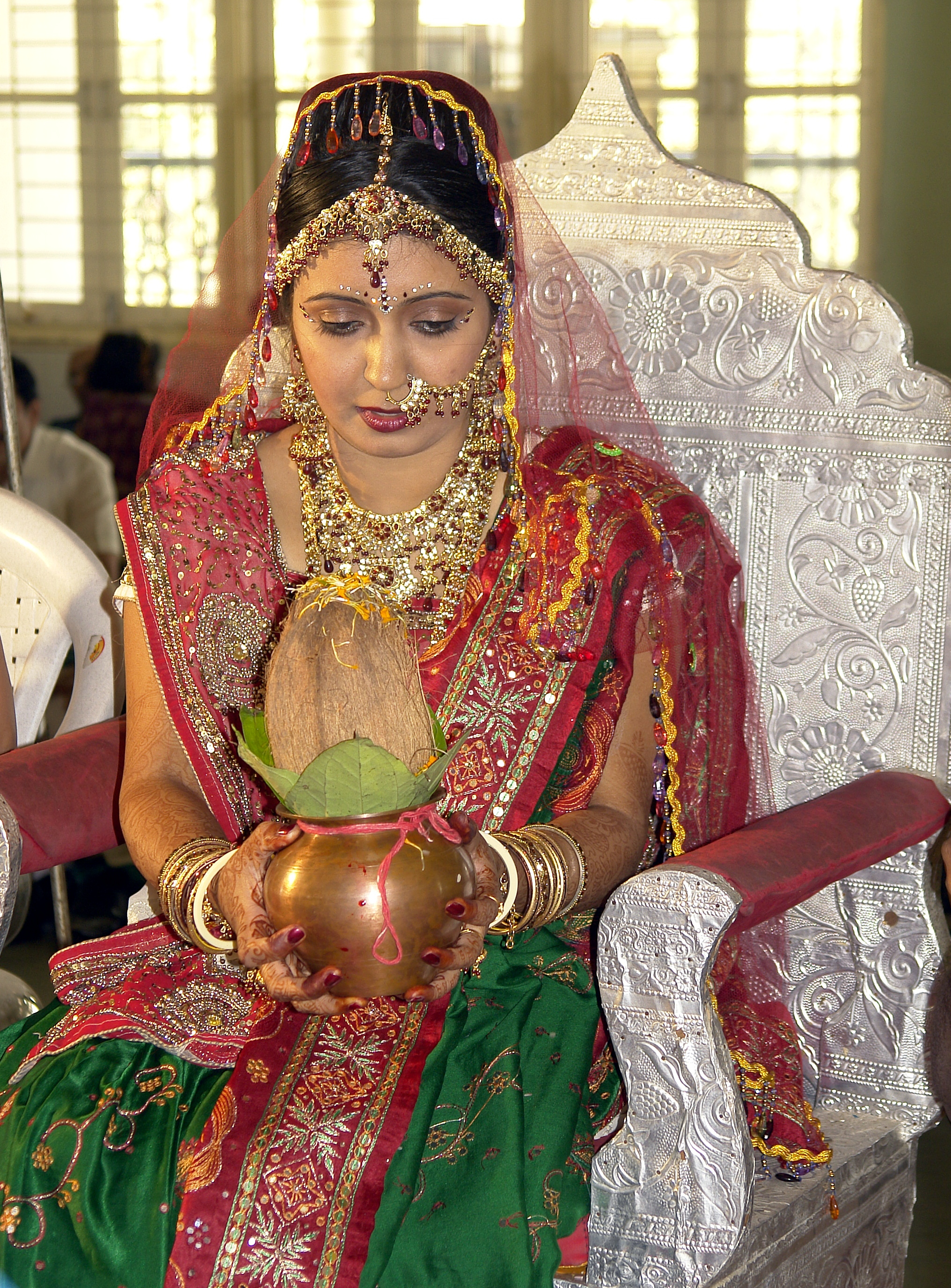 Hindu Bride, Ahmedabad, Gujarat, India.